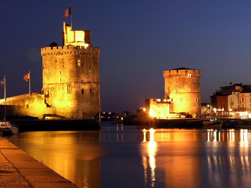 The Harbour at Night, La Rochelle, France